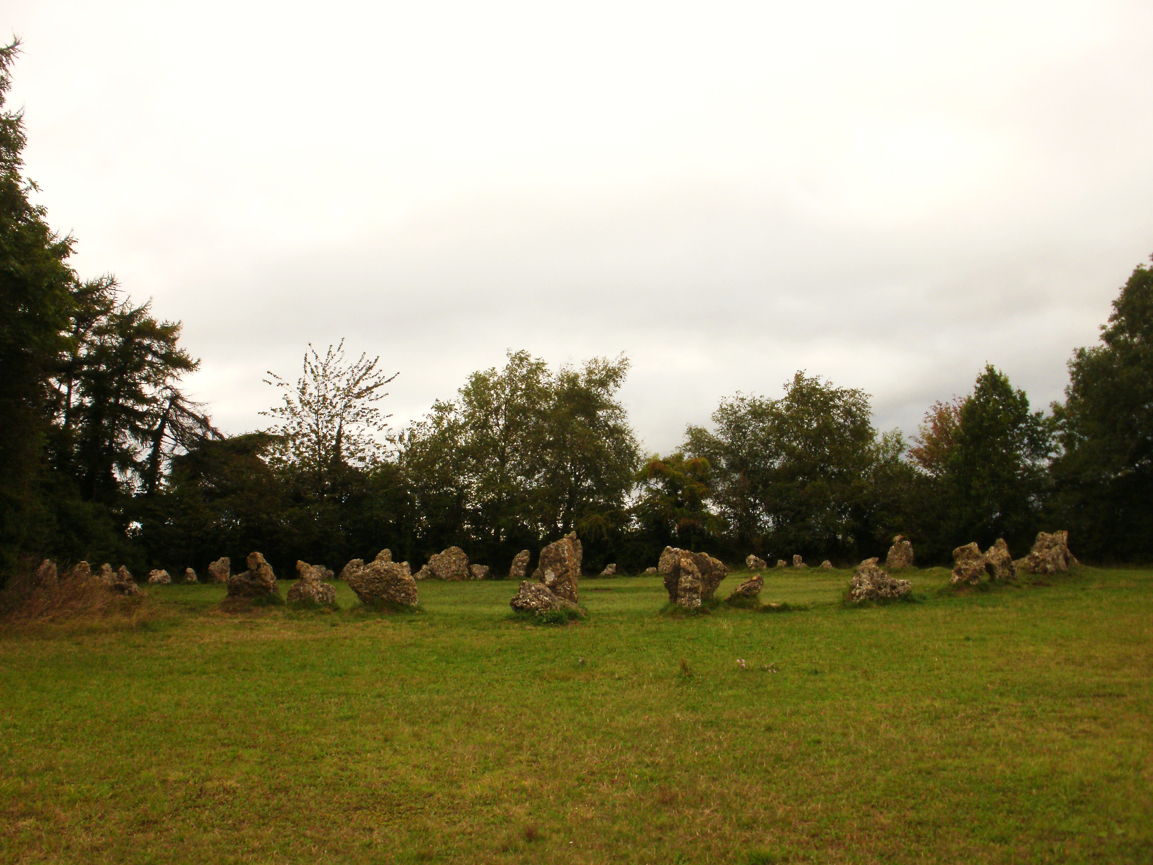 The King's Men stone circle at the Rollright Stones, 2011.